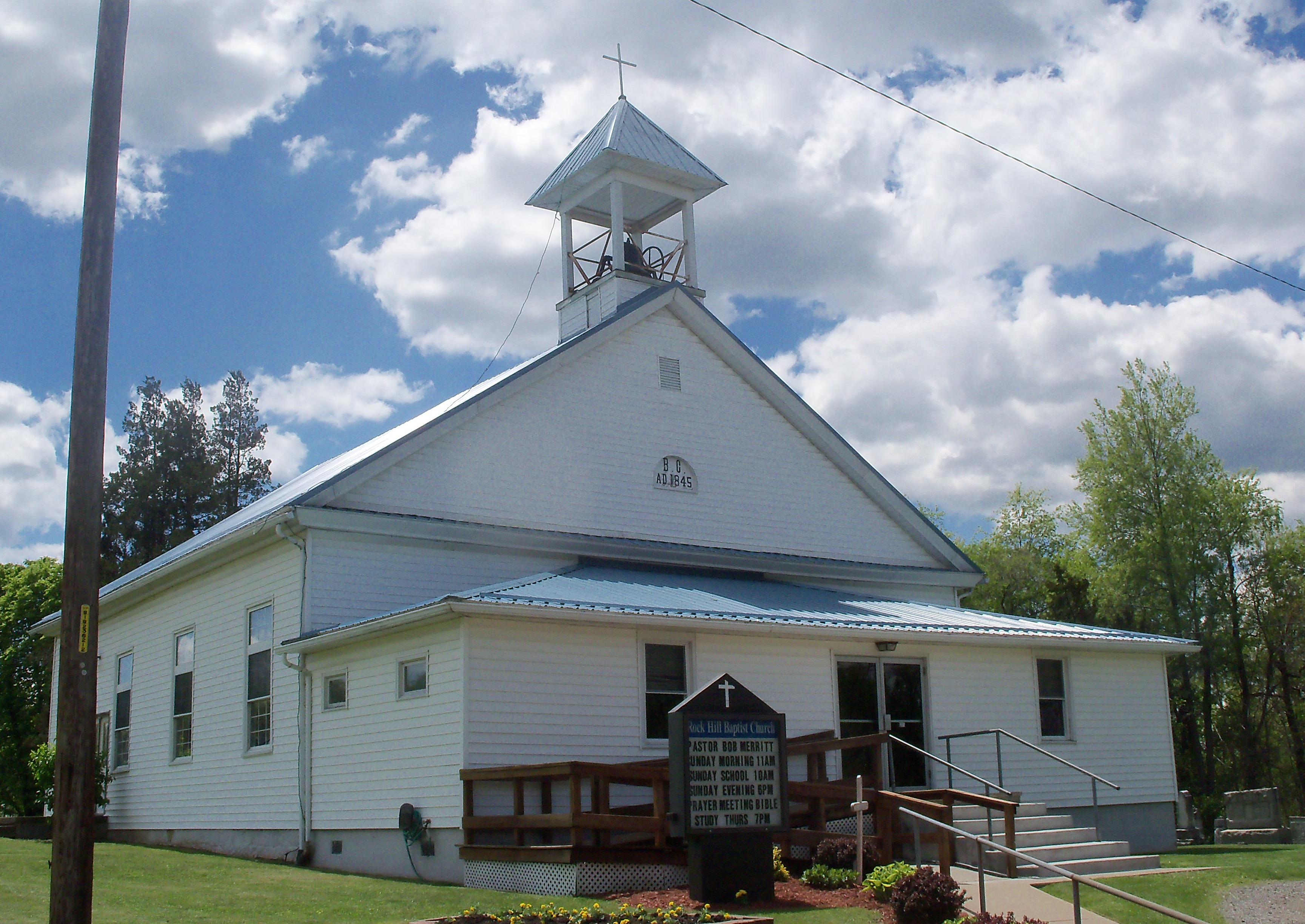 Rock Hill Baptist Church (1845) near Flushing, Ohio